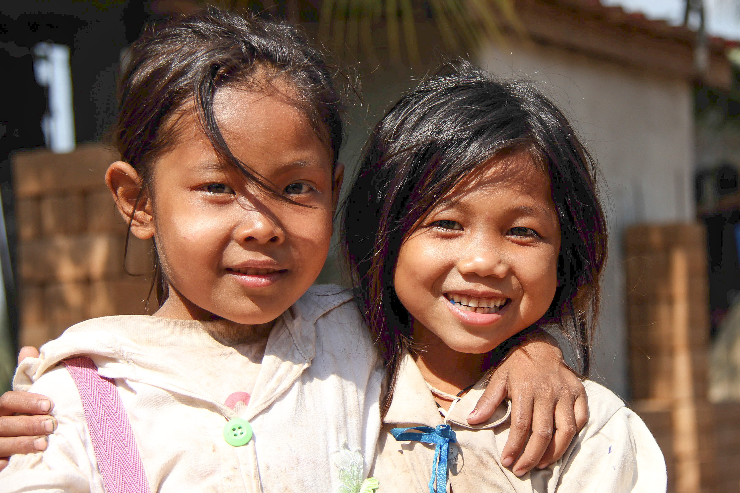 Two little Lao girls hugging and smiling, on Don Khon island in Laos